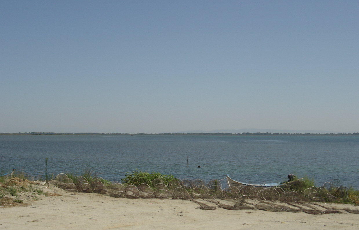 The beach in Nea Agathoupoli.